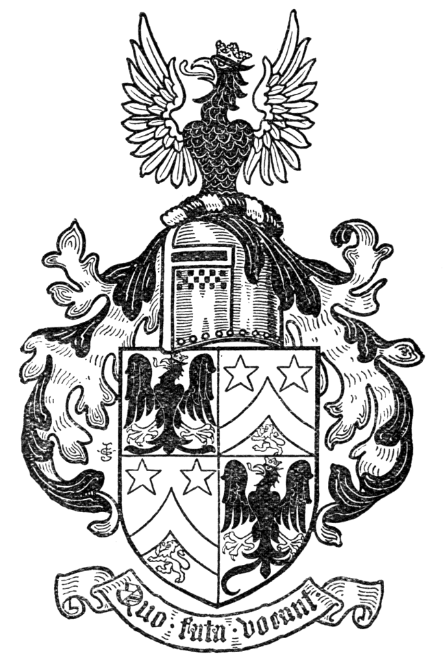 Fig. 139.—Armorial bearings of Rodolph Ladeveze Adlercron, Esq.: Quarterly, 1 and 4, argent, an eagle displayed, wings inverted sable, langued gules, membered and ducally crowned or (for Adlercron): 2 and 3, argent, a chevron in point embowed between in chief two mullets and in base a lion rampant all gules (for Trapaud). Mantling sable and argent. Crest: on a wreath of the colours, a demi-eagle displayed sable, langued gules, ducally crowned or, the dexter wing per fess argent and azure, the sinister per fess of the last and or. Motto: "Quo fata vocant."